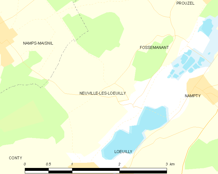 Map of French municipality Neuville-lès-Lœuilly